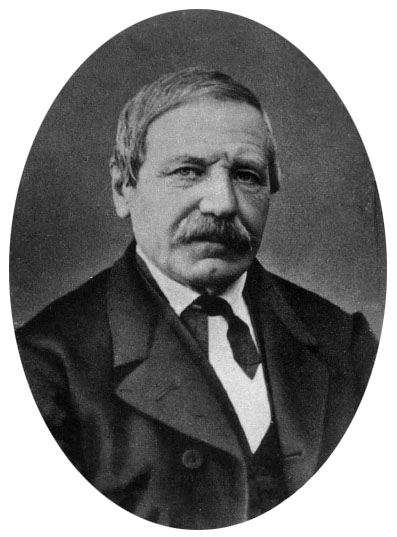 Portrait of Giovanni Domenico Nardo